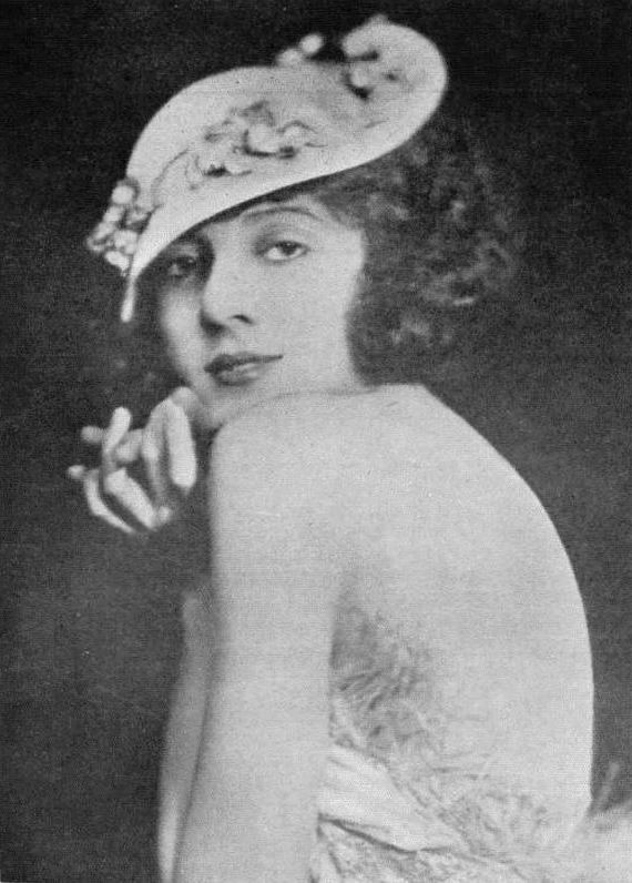 Actress Helen Shipman (1901 – 1984), on page 33 of the November 1922 Broadway Brevities.